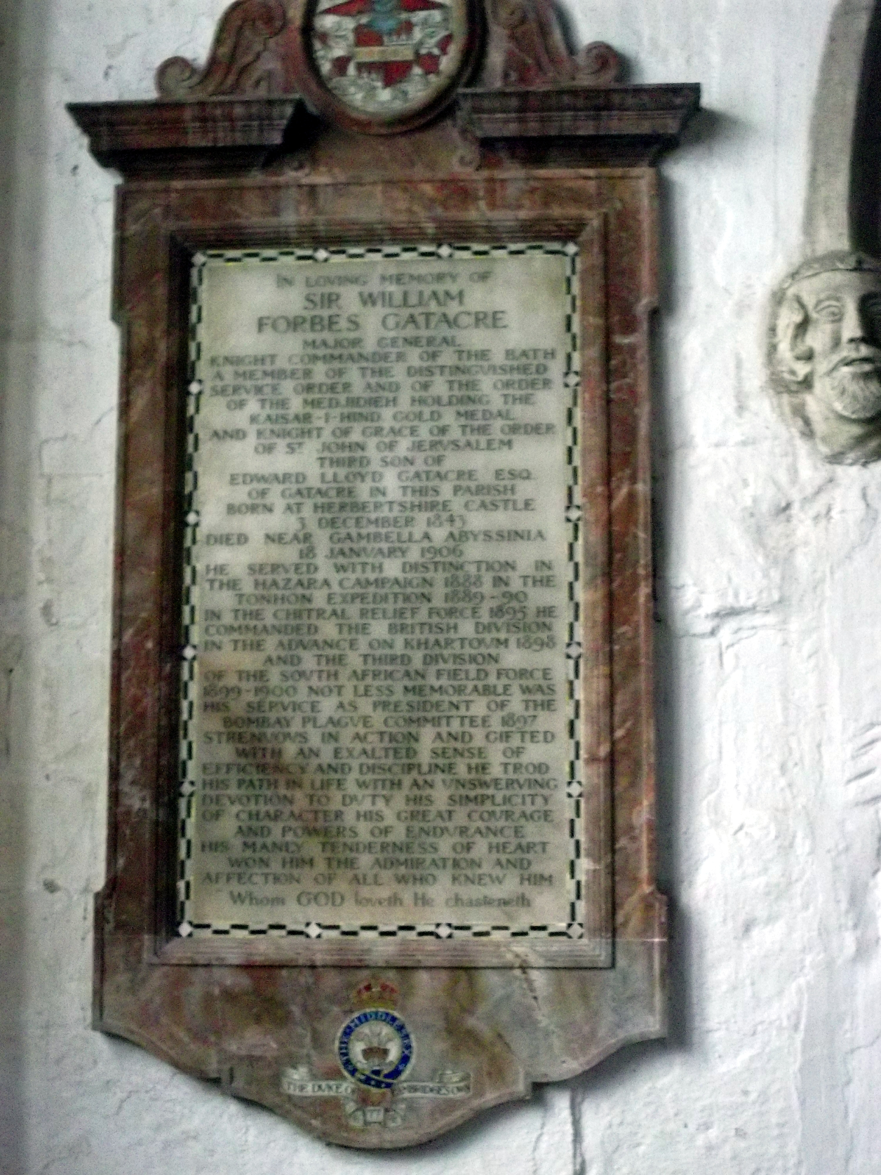 All Saints' church, Claverley, Shropshire, the South Gatacre chapel. Memorial to William Forbes Gatacre, a distinguished soldier whose family were resident in Claverley parish, although he was born near Stirling.